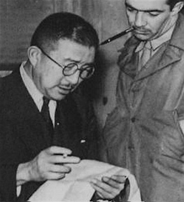 The leader of Liberal Party Ichirō Hatoyama, who was expected to form a new government after winning a general election, was shocked and disappointed by the purge order against him.